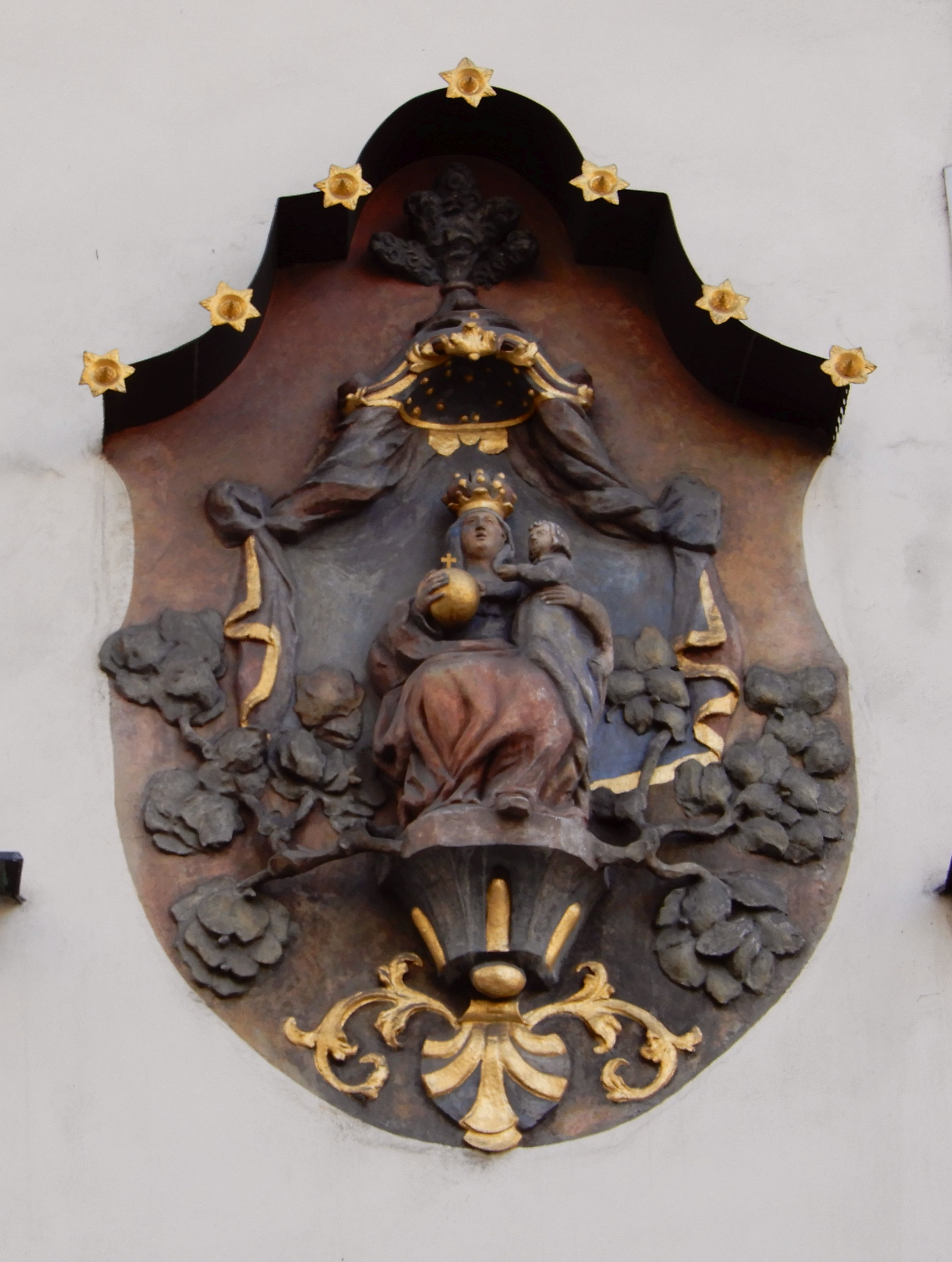 House sign with Virgin Mary and child, House No. 413̠-I, Prague Old Town